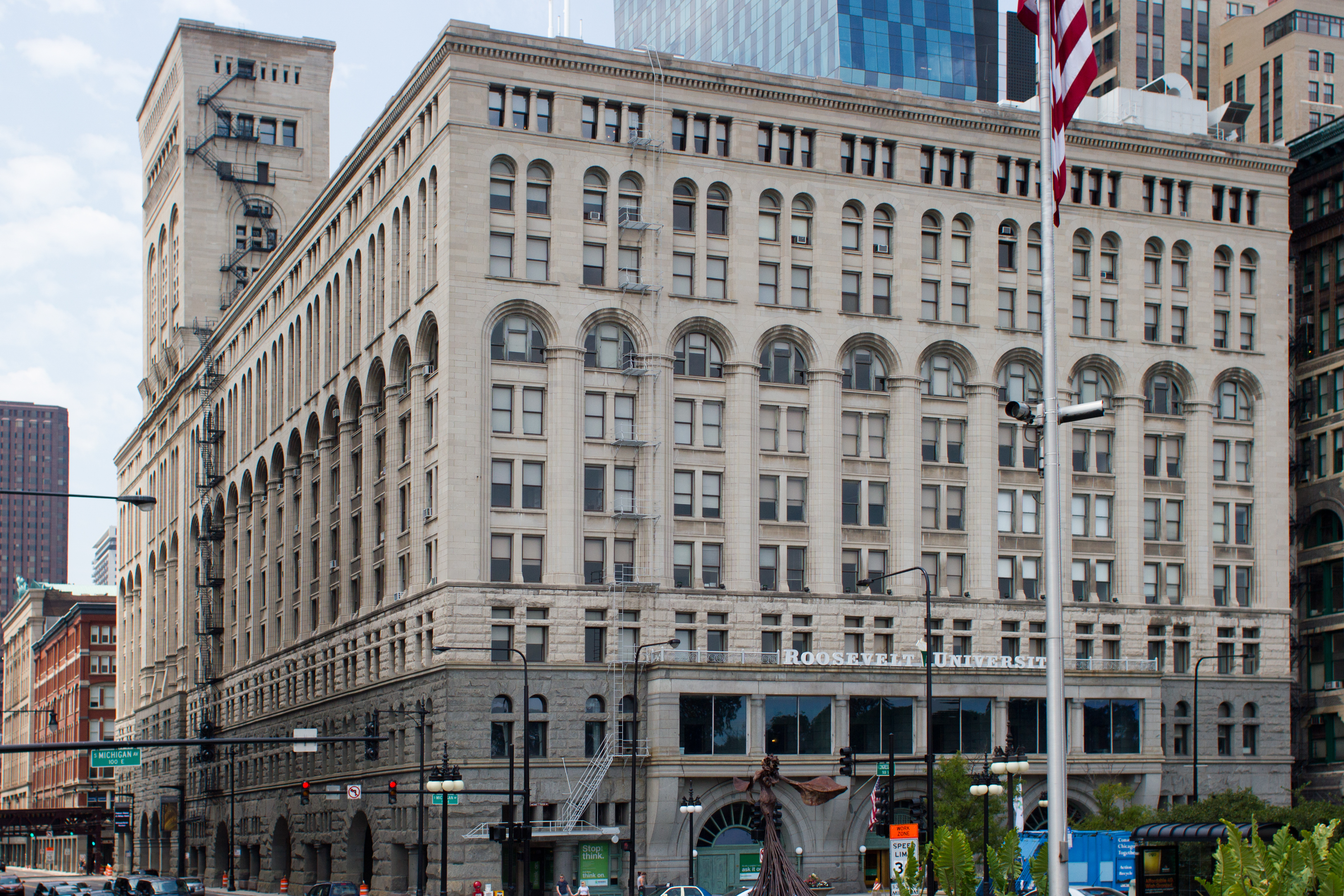 Auditorium Building, Roosevelt University